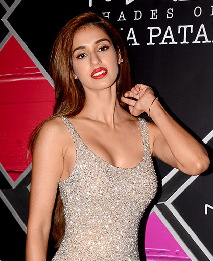 Disha Patani snapped at the M.A.C Cosmetics event, 2019 (1)